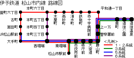 Tram lines of Iyo Railway